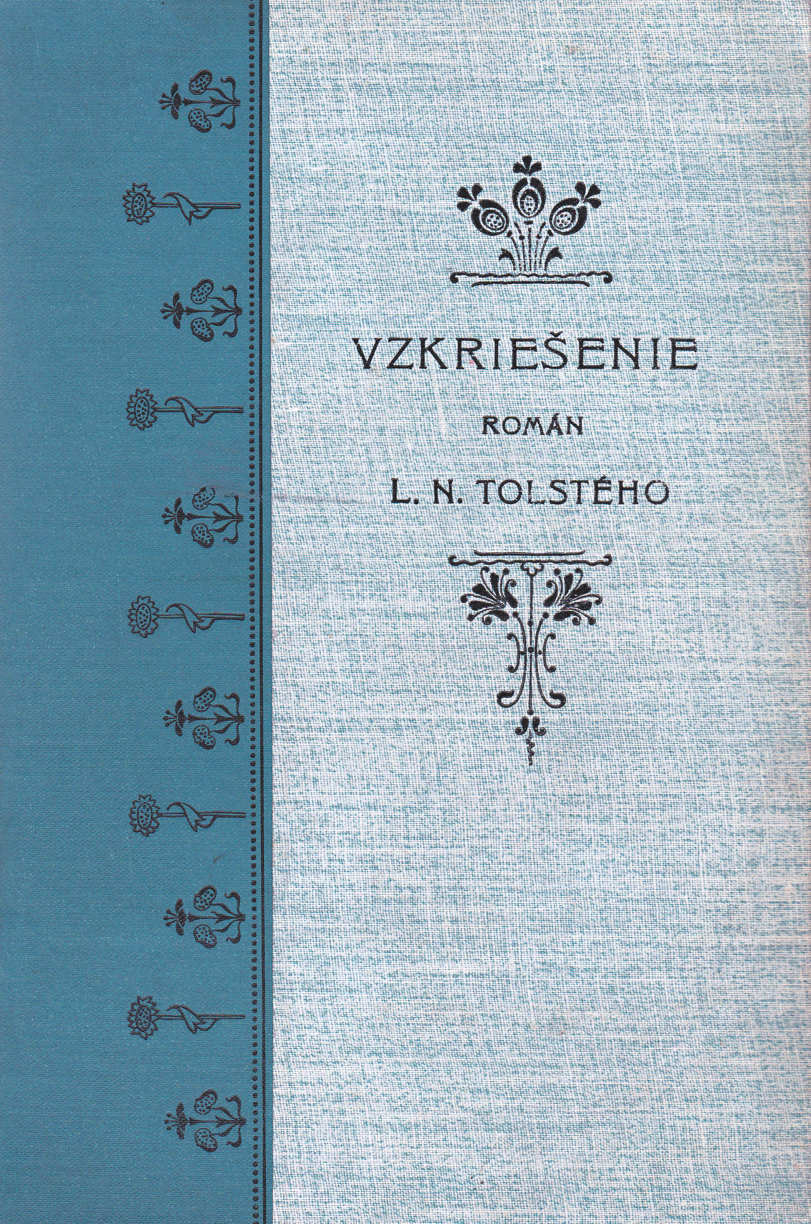 Front cover of Tolstoy's novel "Resurrection" [Воскресение] in the Slovak translation, made by Albert Škarvan; published in Žilina, 1899